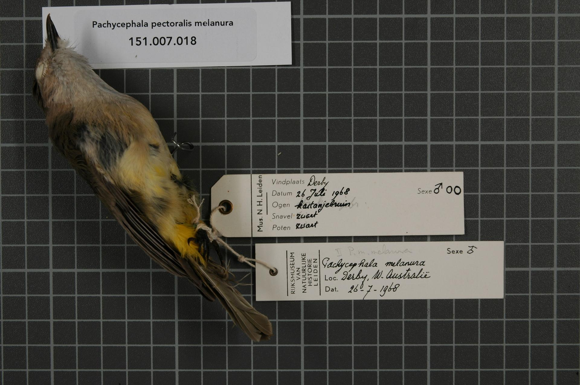 Pachycephala pectoralis melanura Gould, 1843